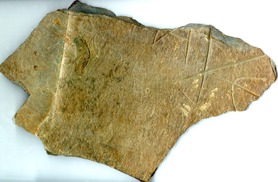 This is a scan taken directly from the stone, slightly digitally enhanced to make the engraved lettering a little more visible.